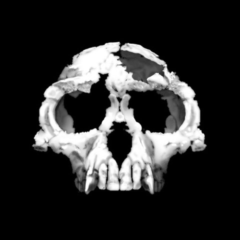 Ardipithecus ramidus specimen, nicknamed ?Ardi?. After Gen Suwa, Berhane Asfaw, Reiko T. Kono, Daisuke Kubo, C. Owen Lovejoy, Tim D. White (2009): "The Ardipithecus ramidus Skull and Its Implications for Hominid Origins." Science, 2 October 2009: Vol. 326. no. 5949, pp. 68e1-68e7, Fig. 2